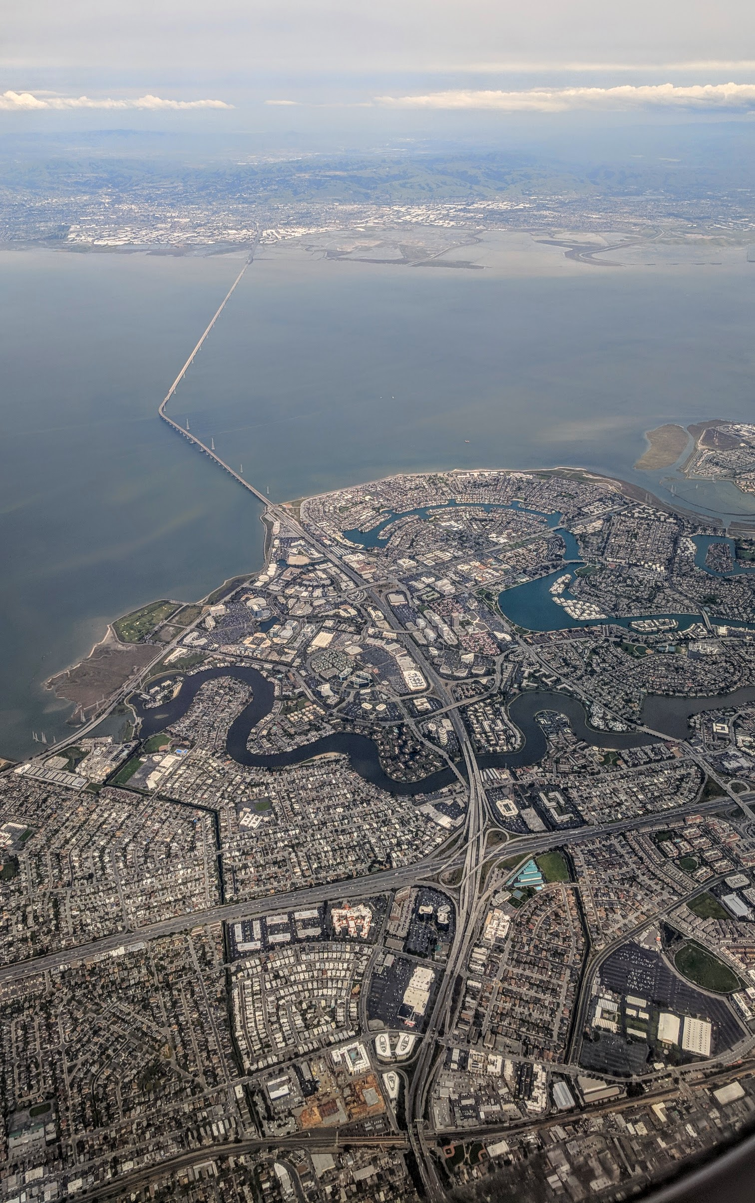 Aerial view of California highway 92, with its US 101 interchange and its path across the San Mateo Bridge.